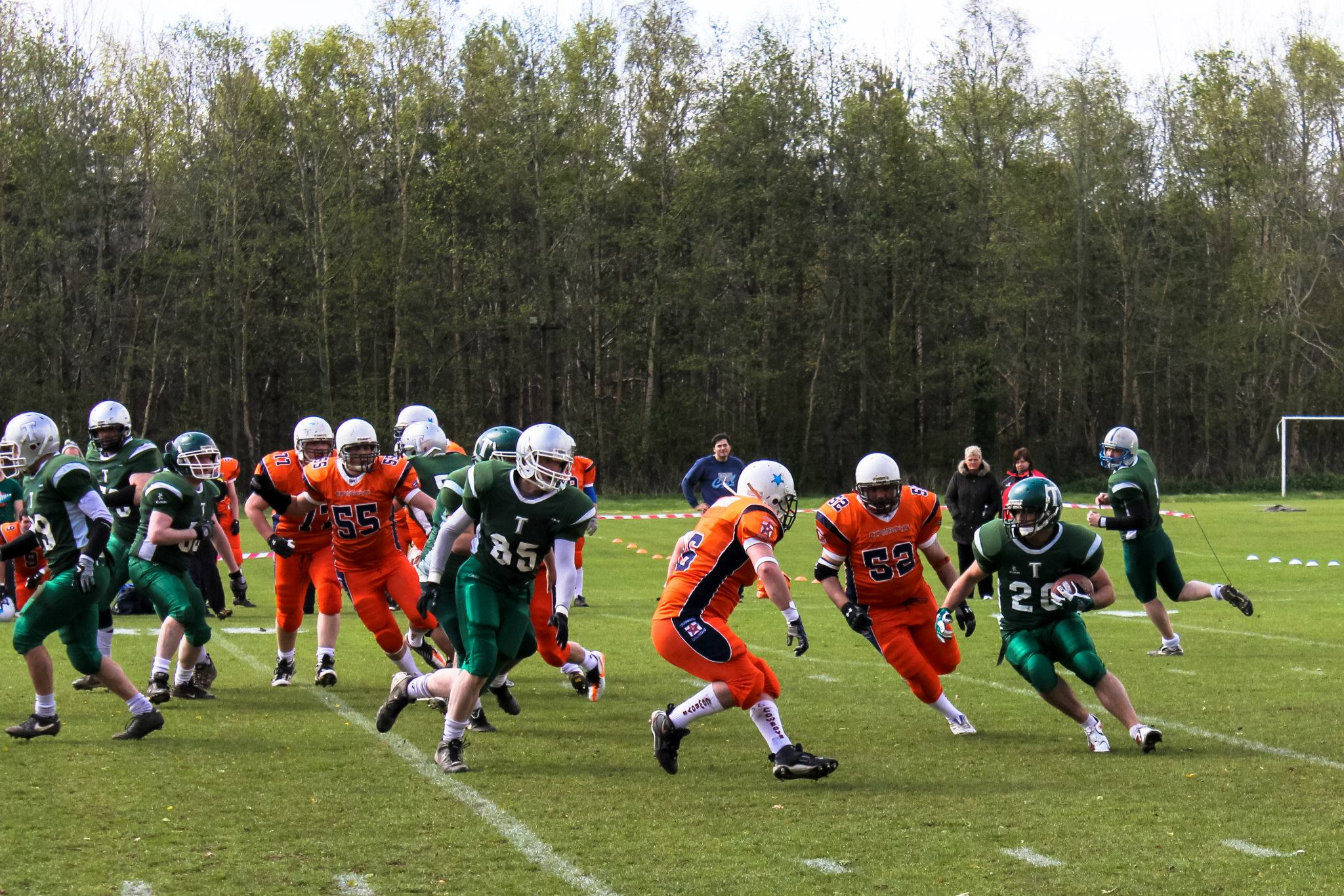 Belfast Trojans Vs Craigavon Cowboys 2012